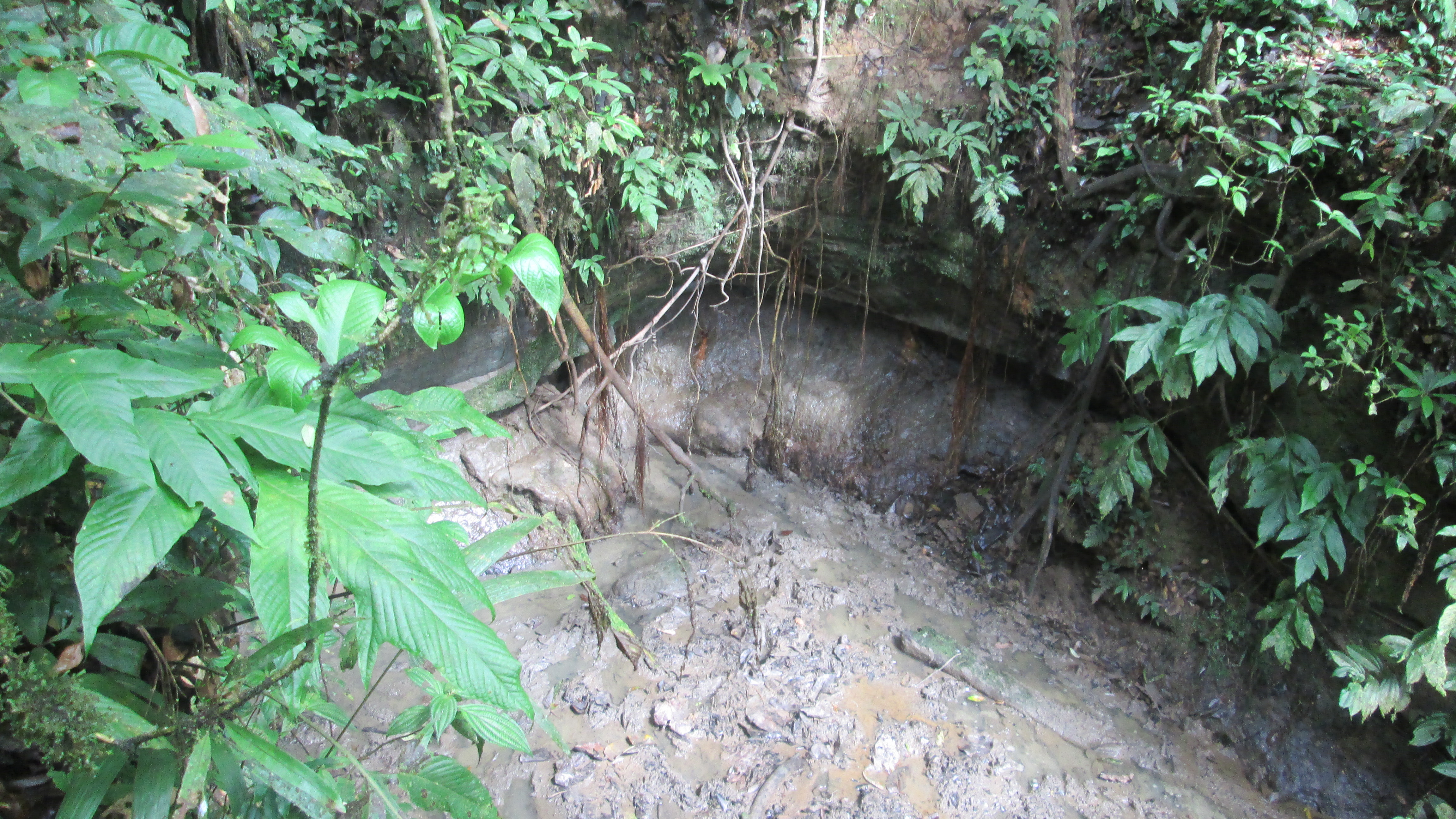 Water puddles with mineral rich clay are where many animals and insects congregate to obtain minerals they cannot obtain otherwise. These make an attractive hunting spot as many large animals sometimes gather here to quench their thirst.